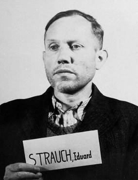 Mugshot photograph of Eduard Strauch, Einsatzgruppen officer, for trial before Nuremburg Military Tribunal